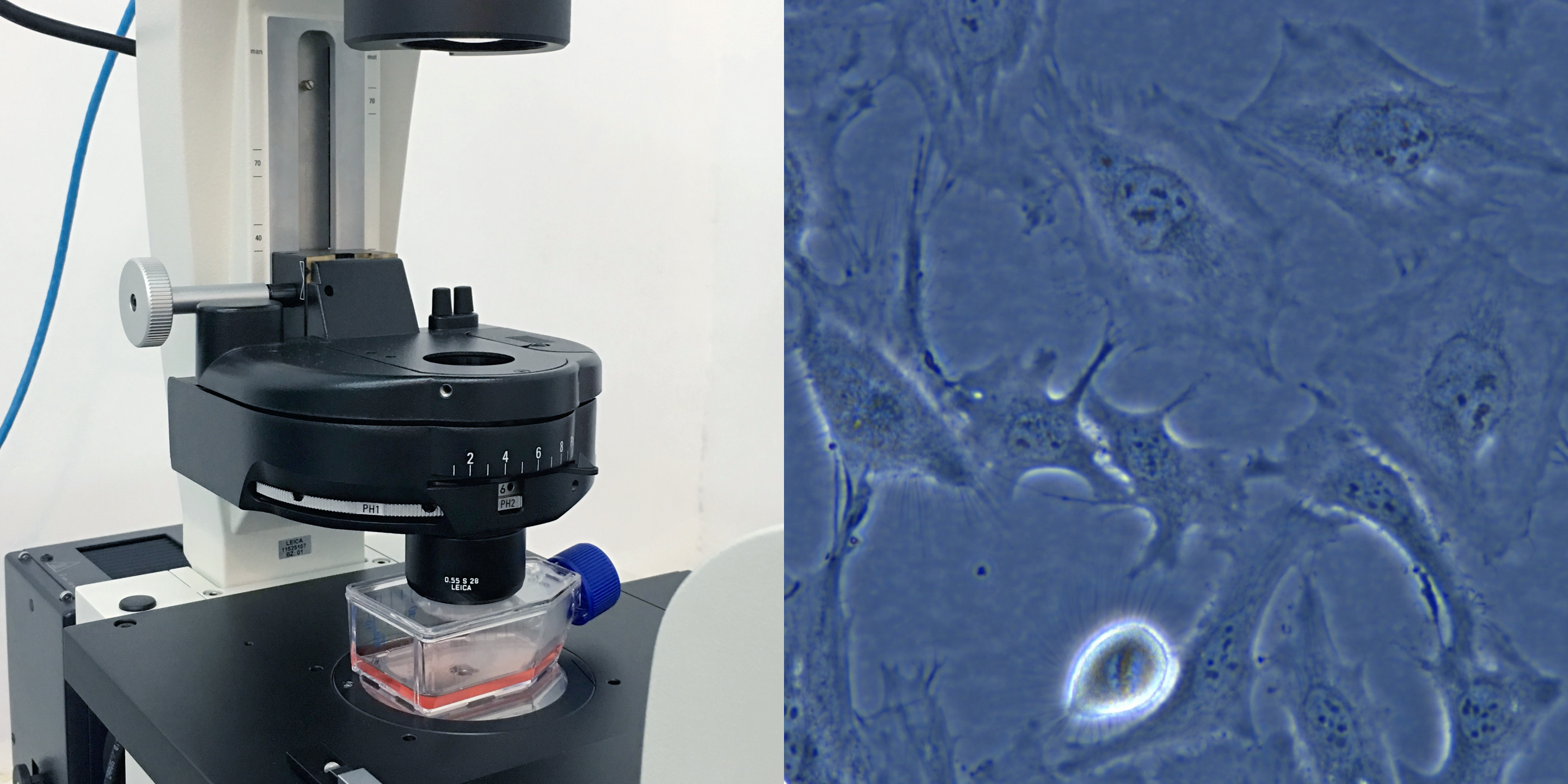 Observing living cell culture under a inverted microcope